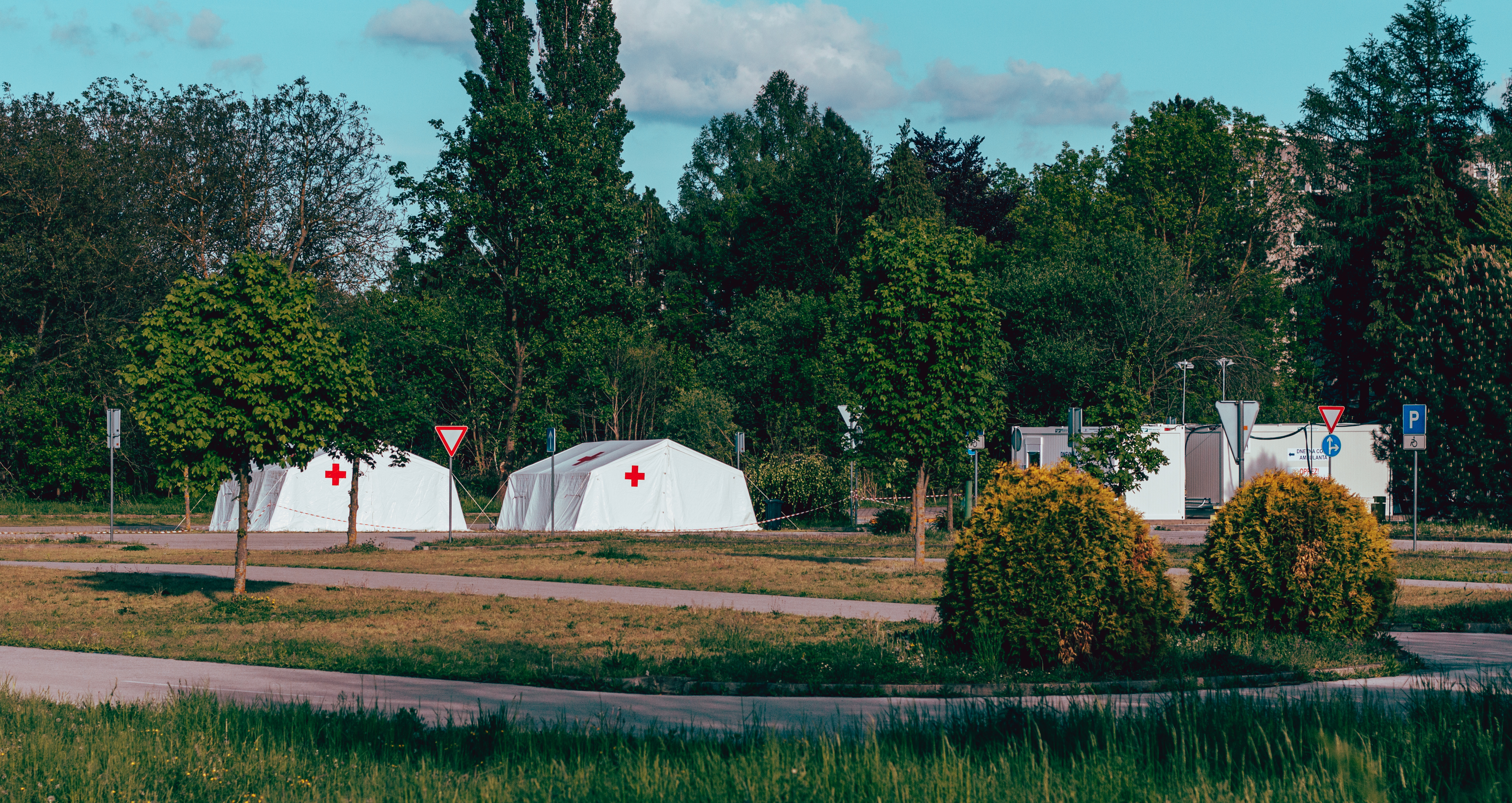 Tents positioned at hospital parking in order to test patients suspected of COVID-19 before entering the Međimurje county hospital.